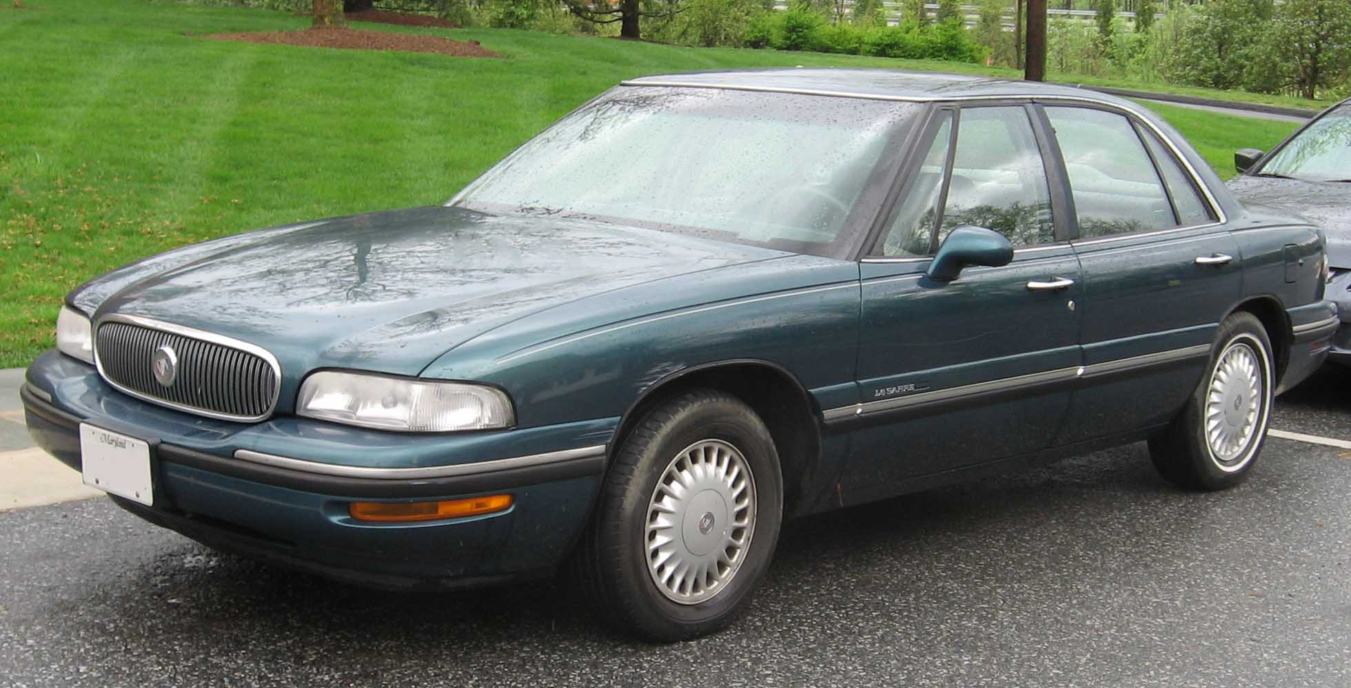 1996-1999 Buick LeSabre photographed in College Park, Maryland, USA.